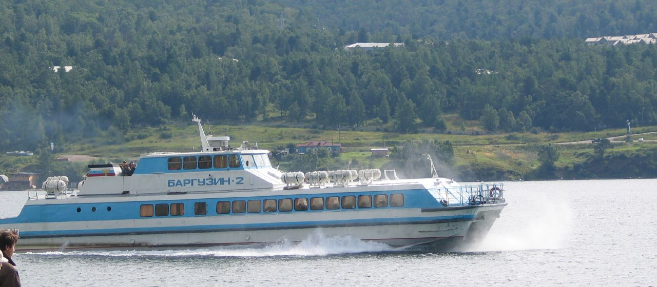 Barguzin-2 hovercraft on lake Baikal